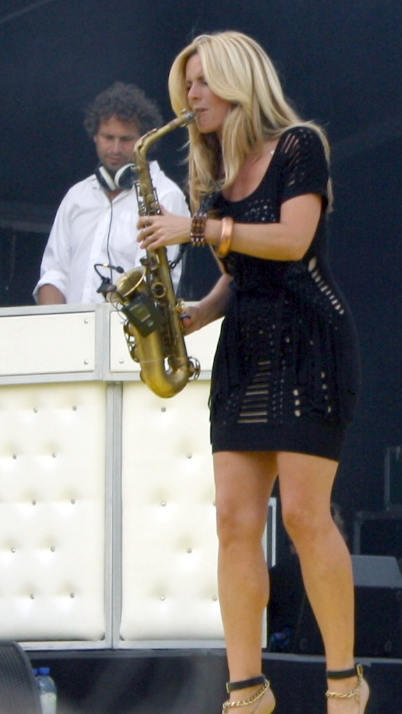 Candy Dulfer at the team presentation of the 2010 Tour de France in Rotterdam